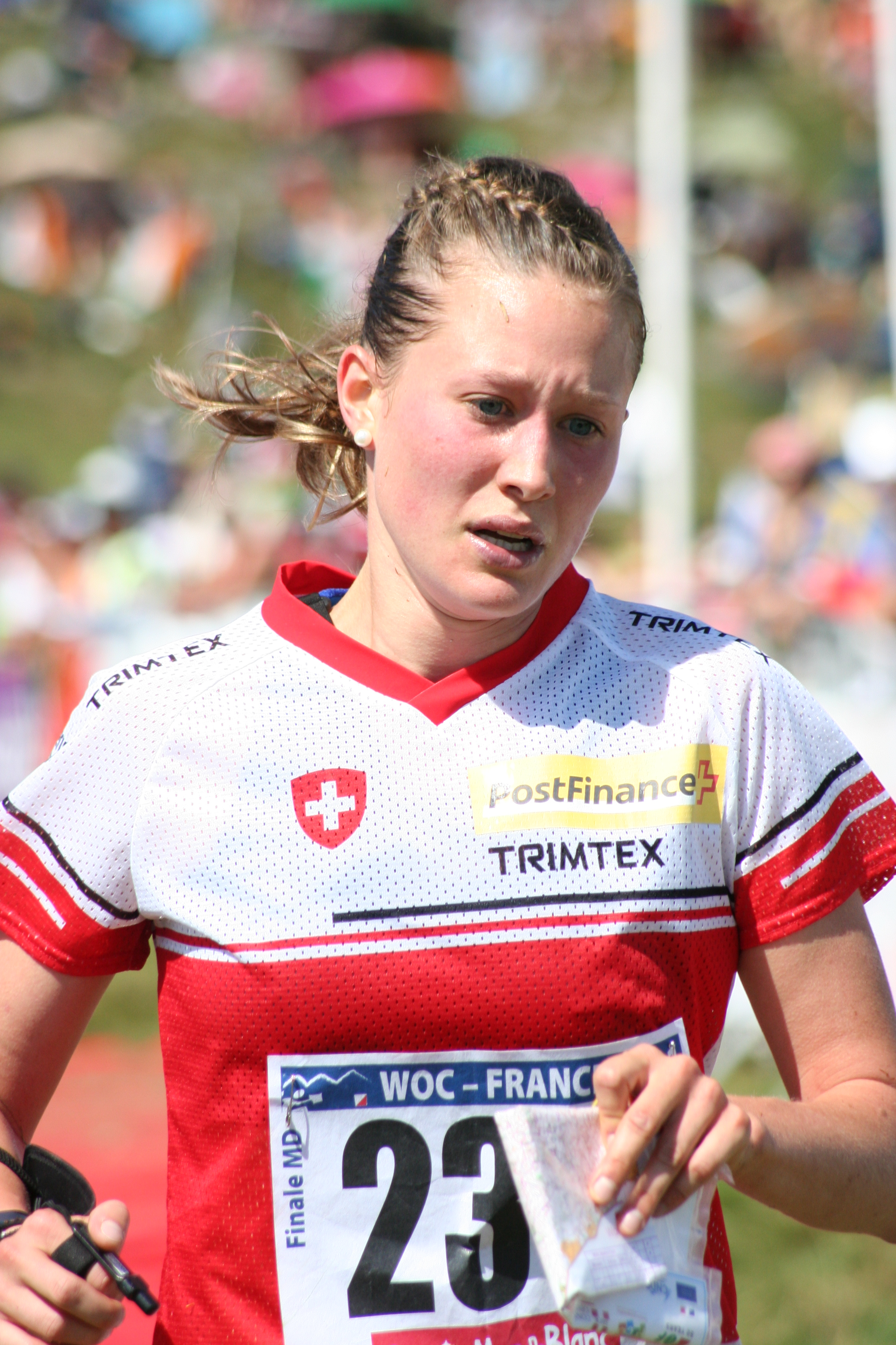 Judith Wyder at WOC 2011 Middle distance final La Féclaz - France Photos by Niels-Peter Foppen